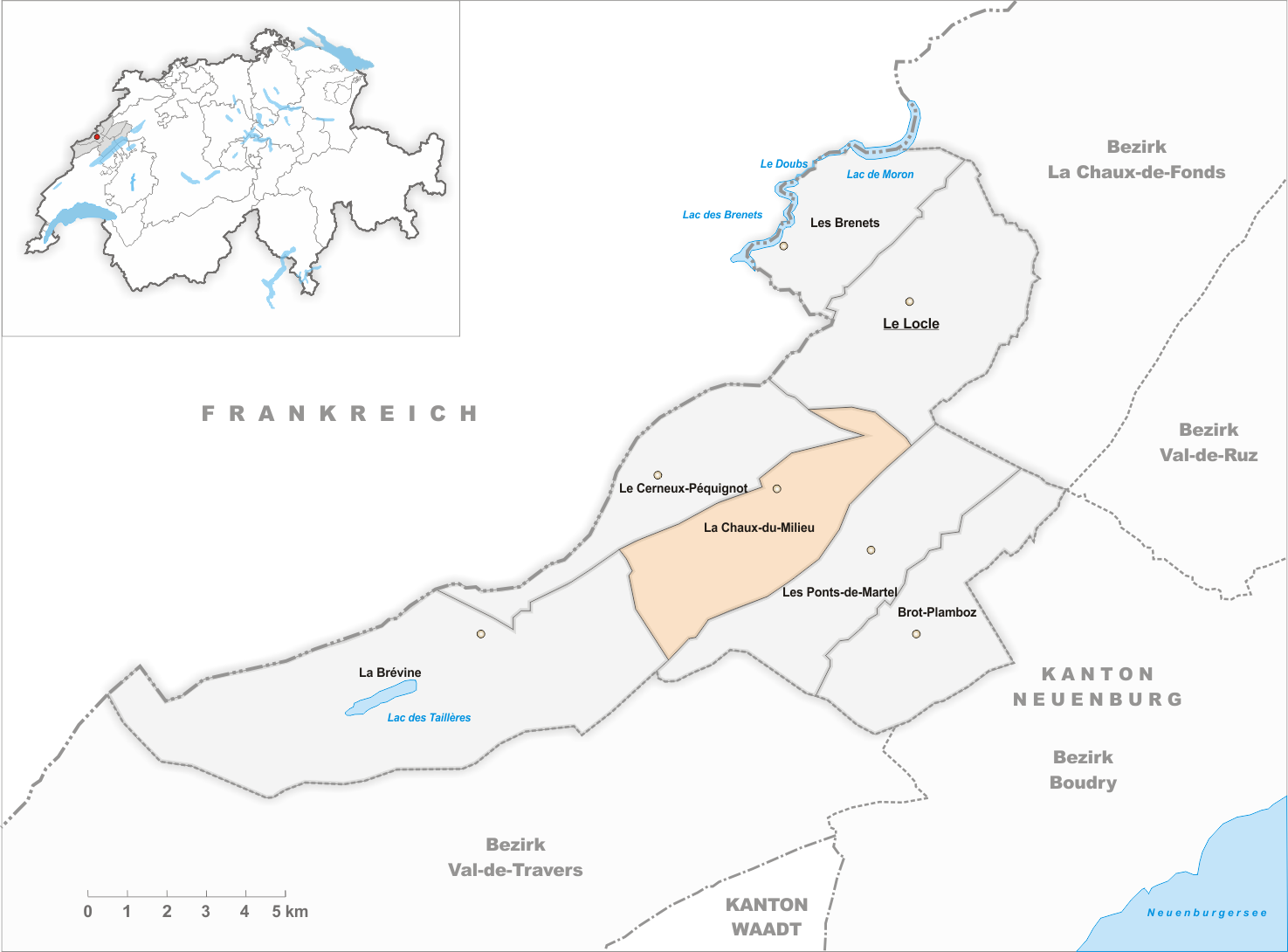 Municipality La Chaux-du-Milieu